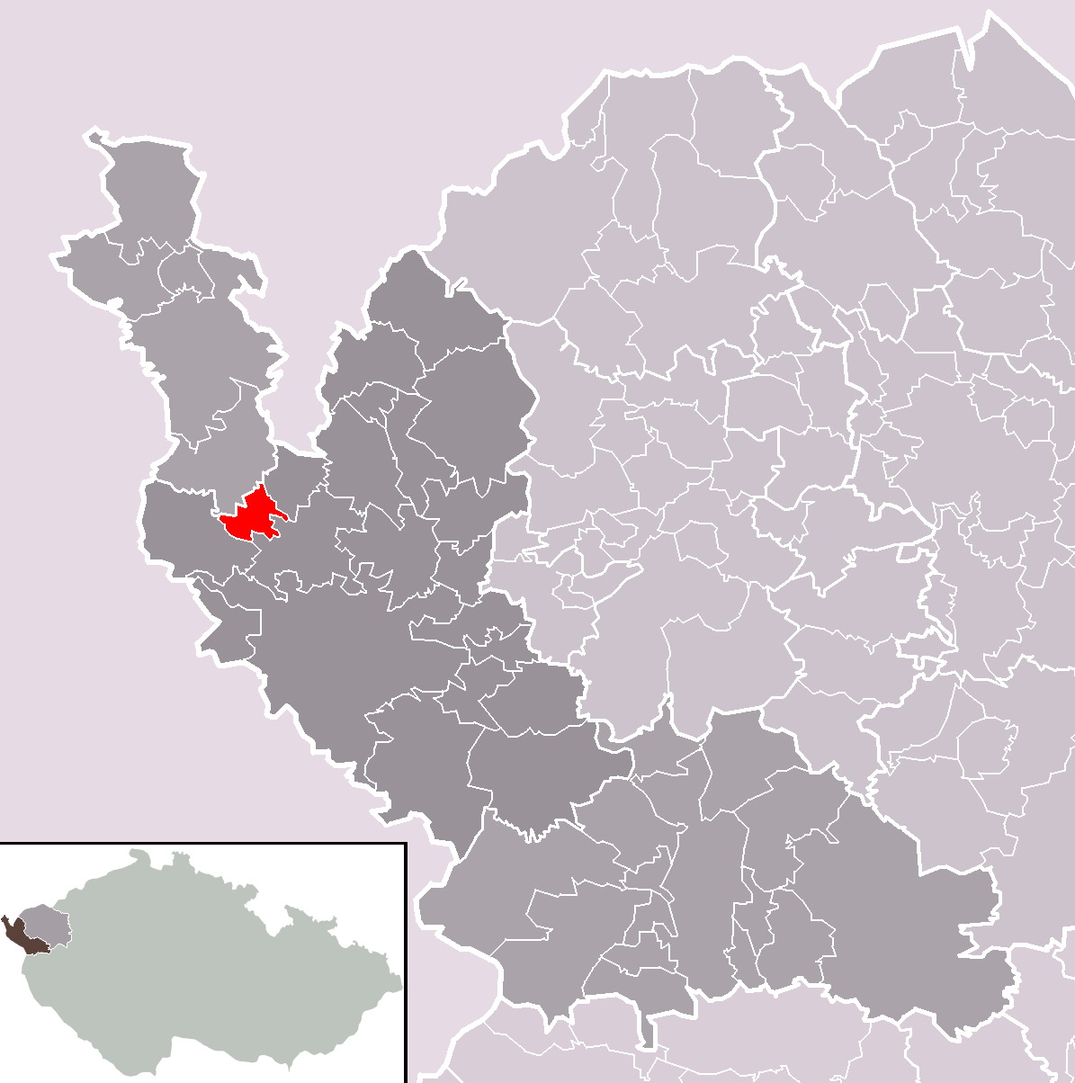 Location of Poustka municipality within Cheb District and administrative area of Cheb as a Municipality with Extended Competence.